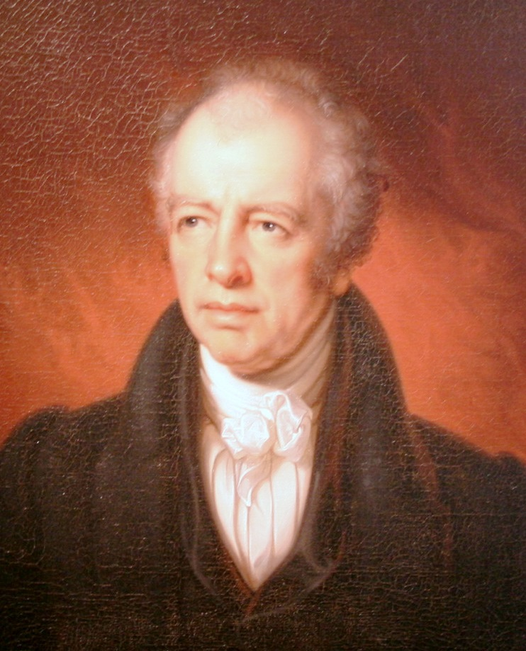 Oil on canvas painting of James Kent; size without frame 77.5×64.1 cm.